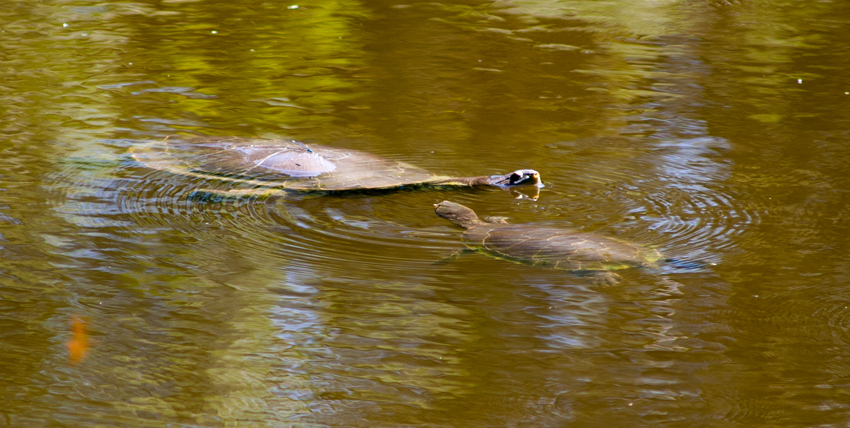 Two turtles on the Argentine island of Martin Garcia.